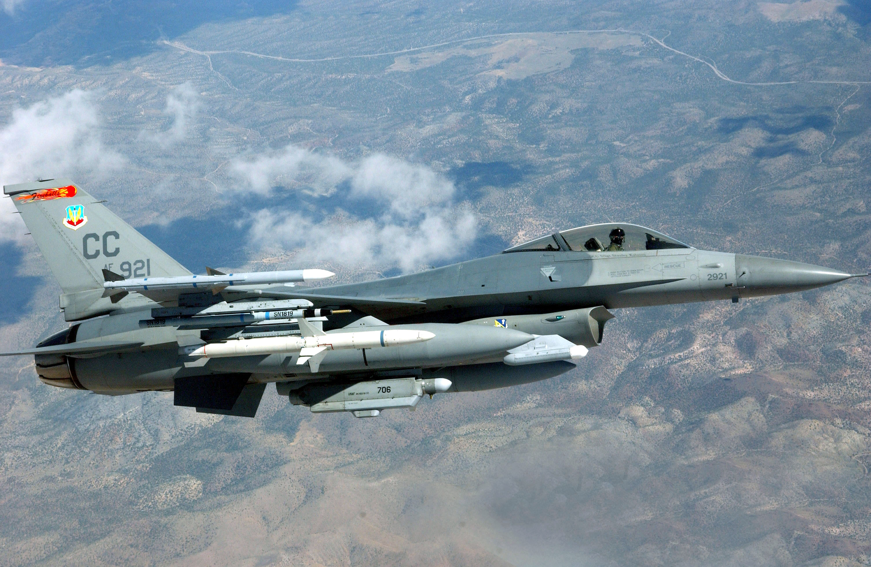 US Air Force (USAF) F-16C Fighting Falcon, 27th Fighter Wing (FW), Cannon Air Force Base (AFB), New Mexico (NM), heads out on a mission somewhere over the Nevada Test and Training Range (NTTR), Nellis AFB, Nevada (NV), during RED FLAG 04-3. The Falcon is armed with an AIM-7 Sparrow on the wing tip and an AIM-120A Advanced Medium Range Air-to-Air Missile (AMRAAM) and Air Combat Maneuvering Instrument (ACMI) Pod under the wing.